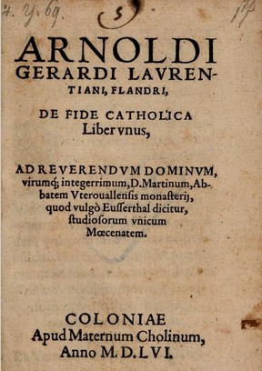 Maternus Cholinus (1525–1588), De fide catholica, On the catholic faith, 1556